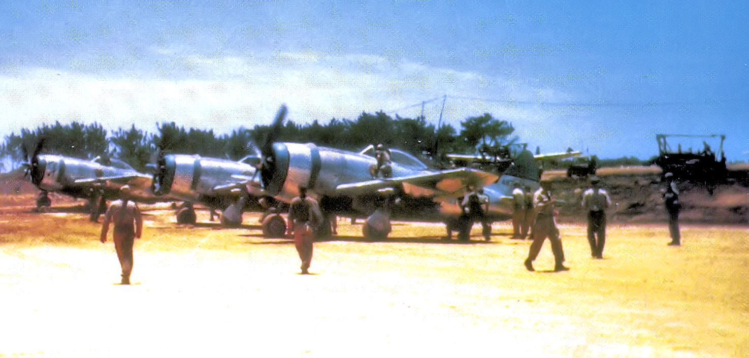 A USAAF 19th Fighter Squadron Republic P-47N Thunderbolt at Ie Shima Airfield, Ryukyu Islands, Japan, in 1945.